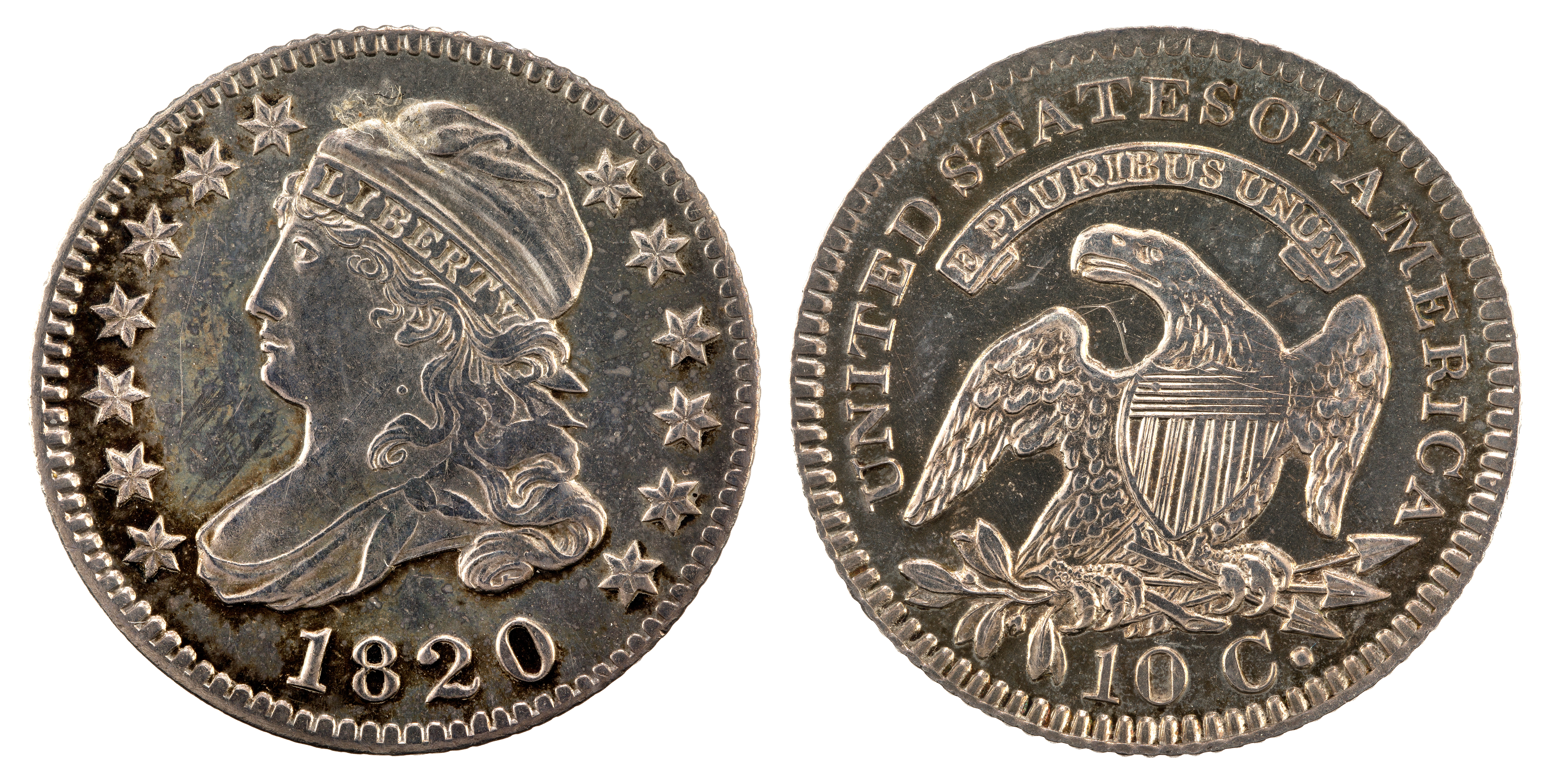 1820-10C-Capped BustJN2015-6598-99